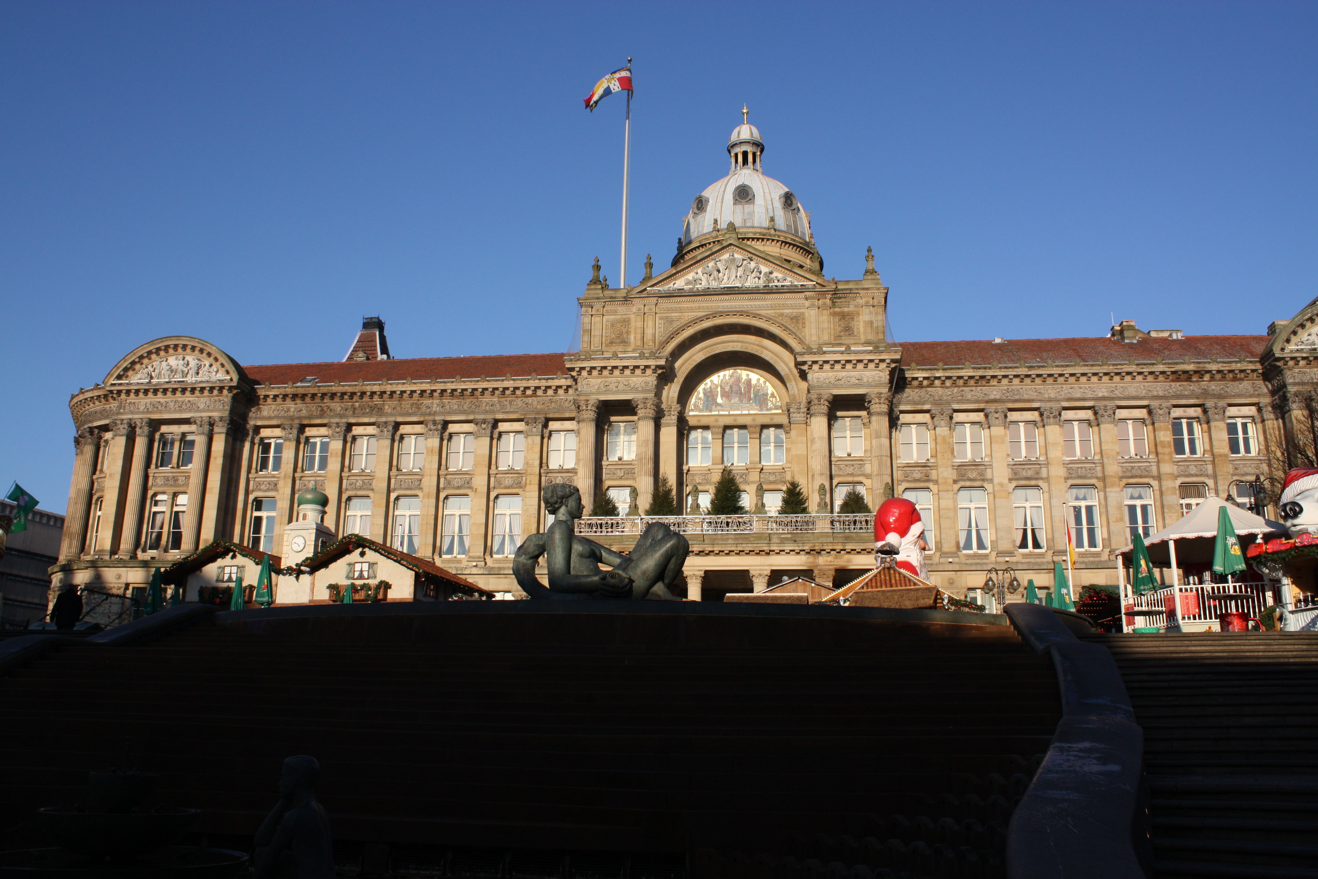 Birmingham Council House in December 2008